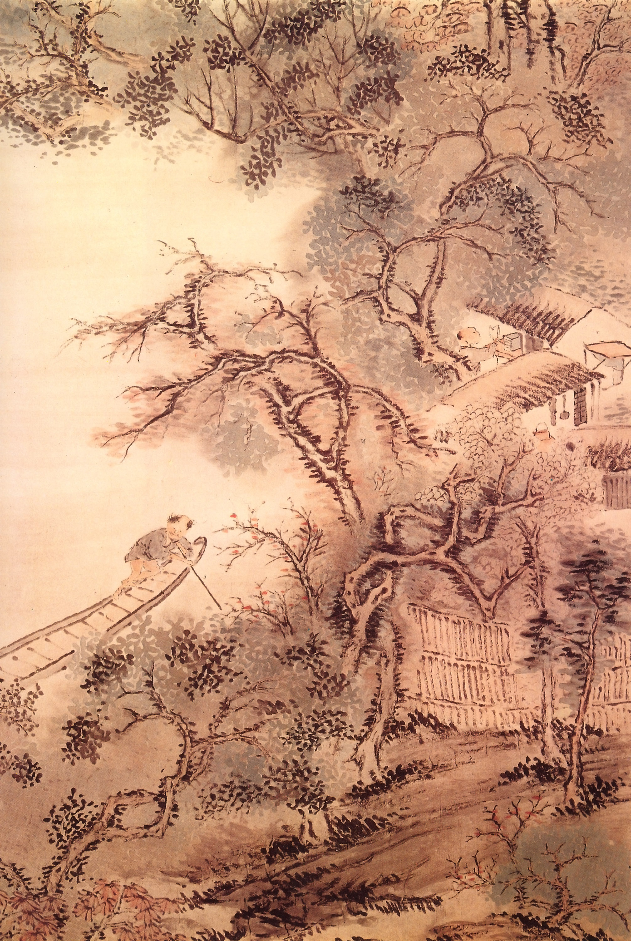 Painting. Title: Detail of Boating on the Inagawa river.